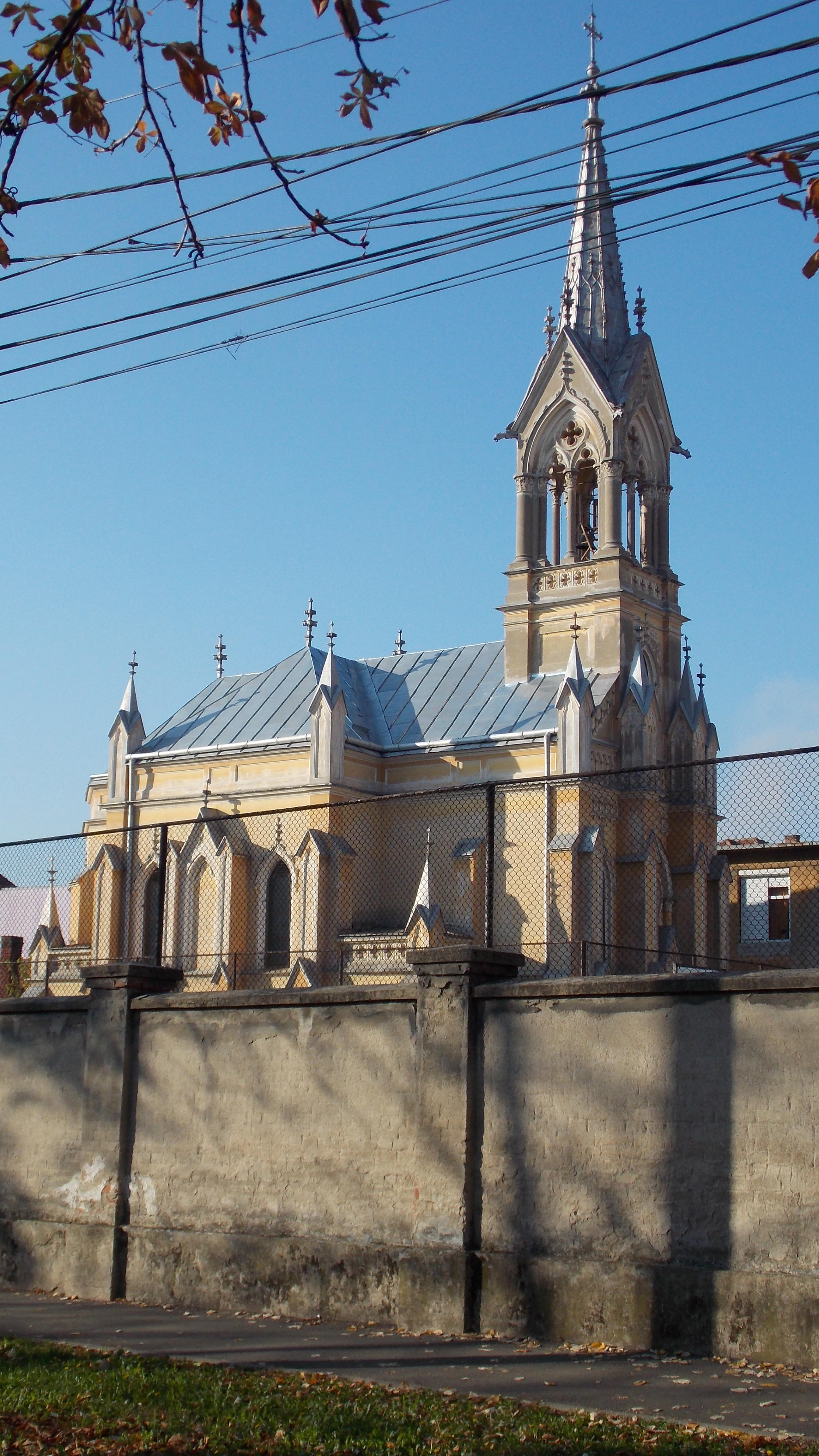 "St. Ladislau" Roman-Catholic chapel - OradeaRomână: Capela romano-catolică "Sf. Ladislau"